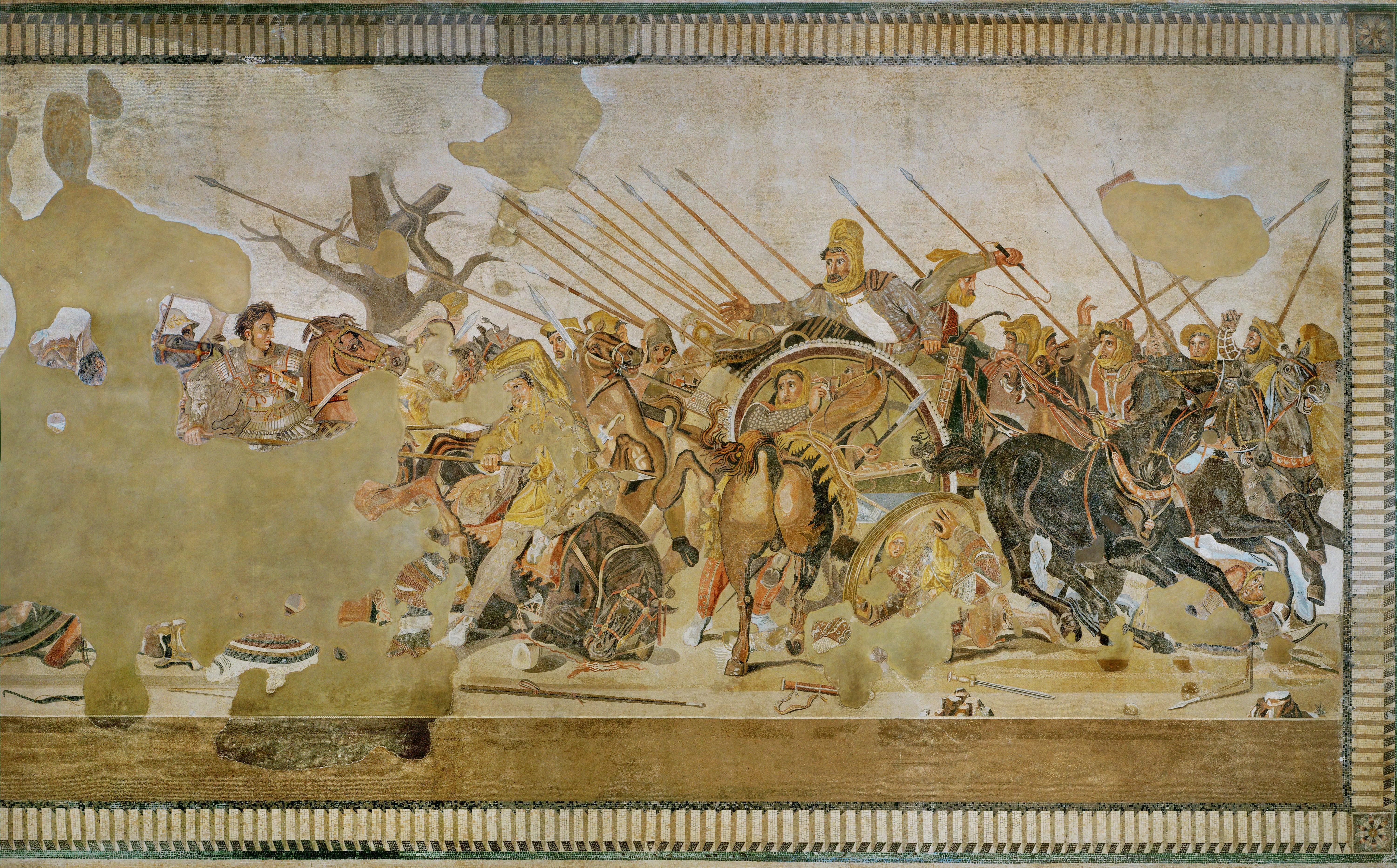 The battle of Issos between Alexander the Great and Darius of Persia. Floor mosaic, Roman copy after a Hellenistic original by Philoxenos of Eretria.